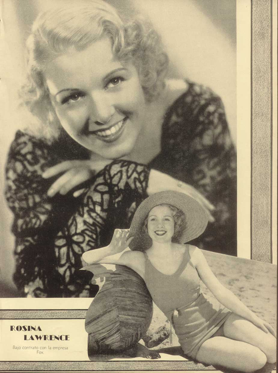 Publicity photo of Rosina Lawrence for Argentinean Magazine. (Printed in USA)